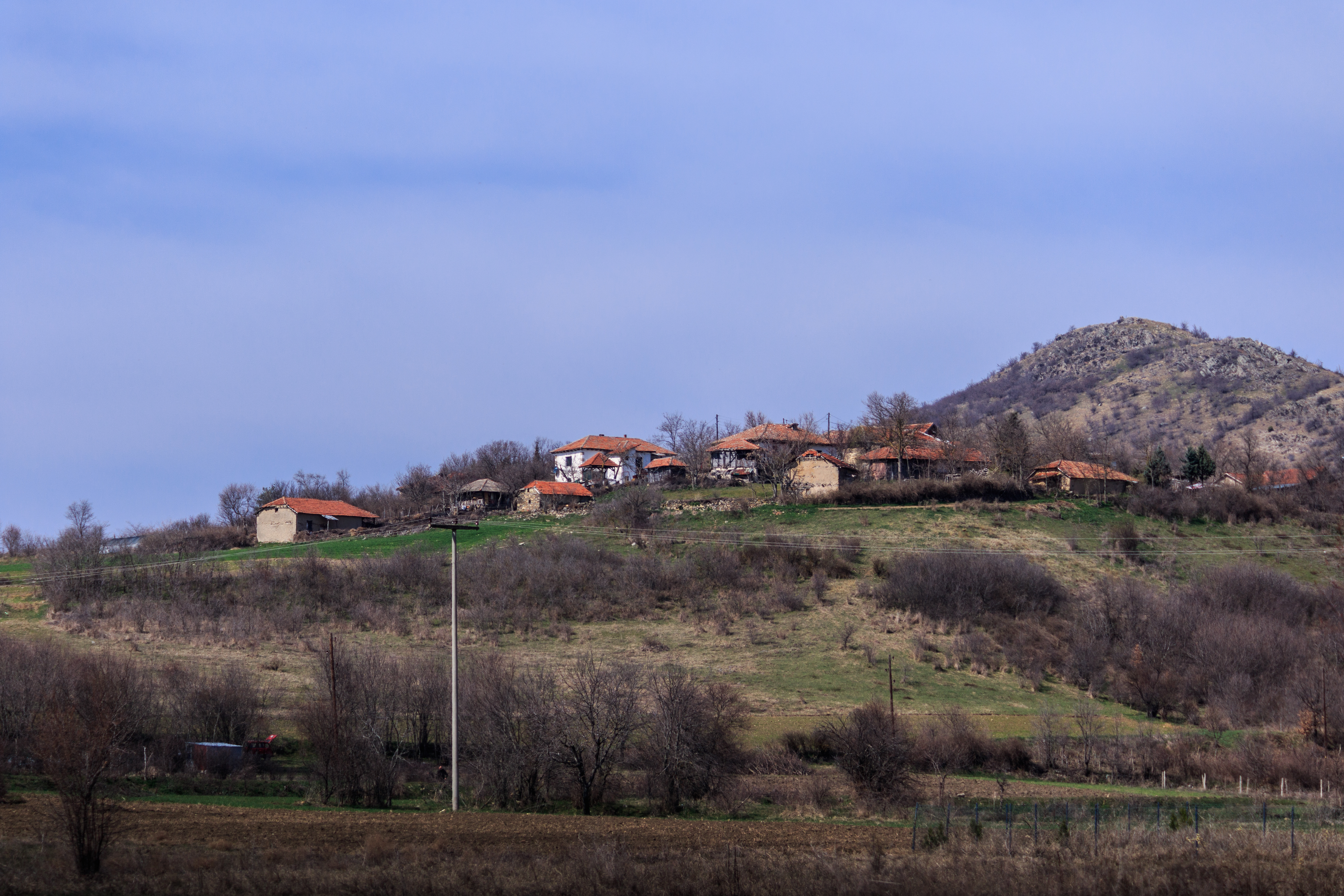 Part of the village Čelopek in the Staro Nagoričane Municipality, Macedonia